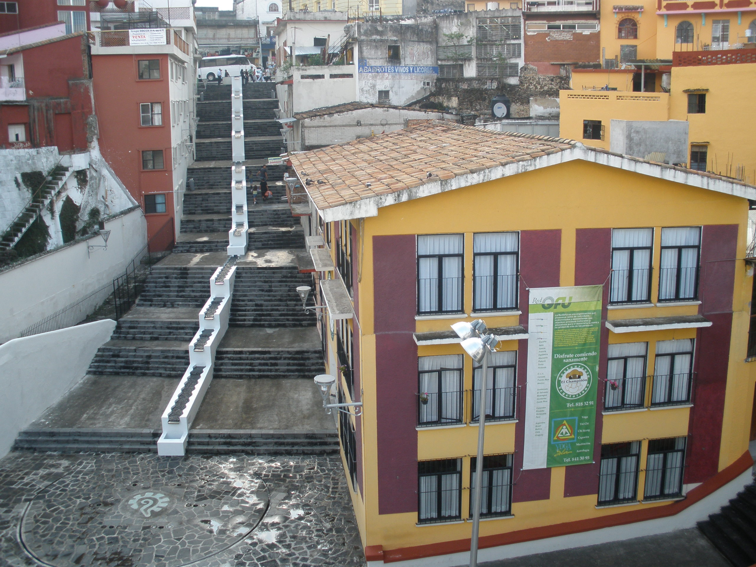 Escalinatas del Barrio de Xallitic, en Xalapa, Veracruz